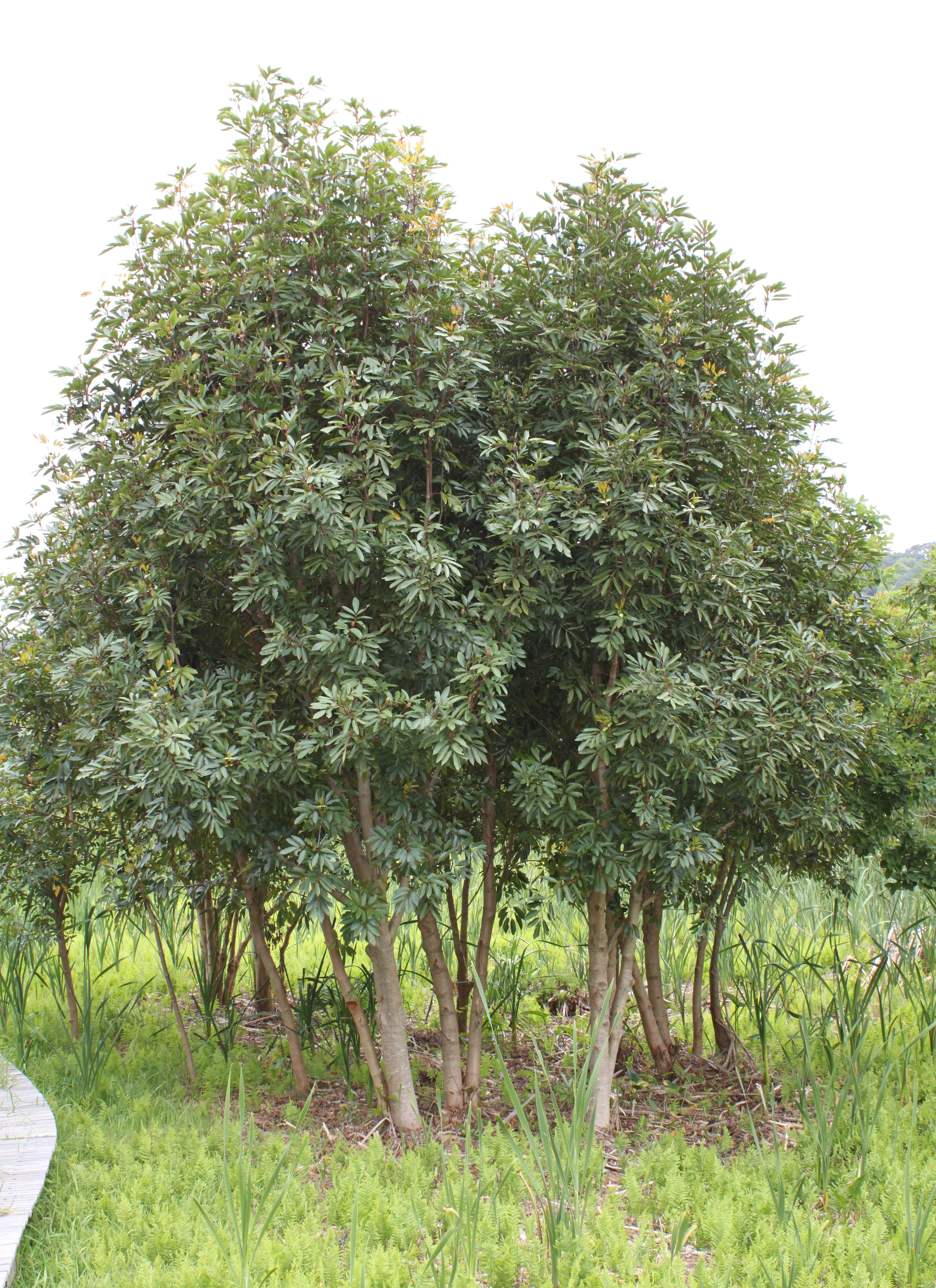 A spinny of Red Alder or Butterspoon trees, growing in a wetland in Cape Town IsiZulu: umLulama